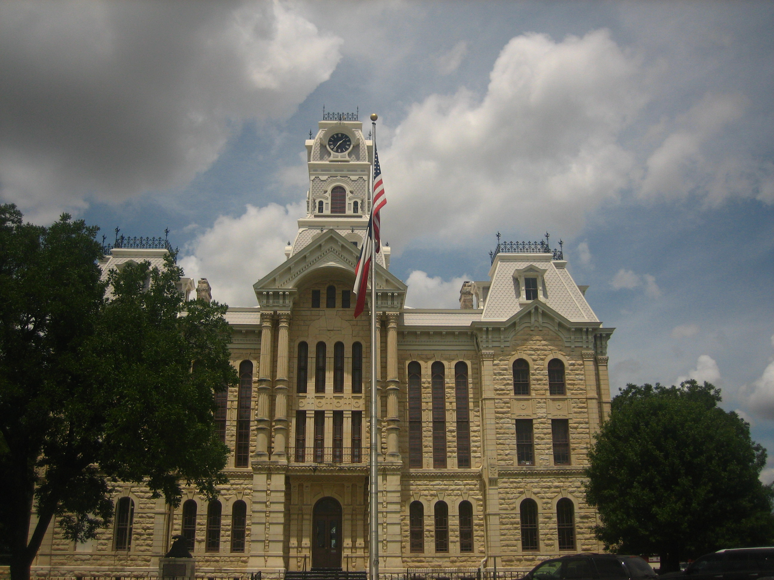 Hill County Courthouse in downtown Hillsboro, Texas.